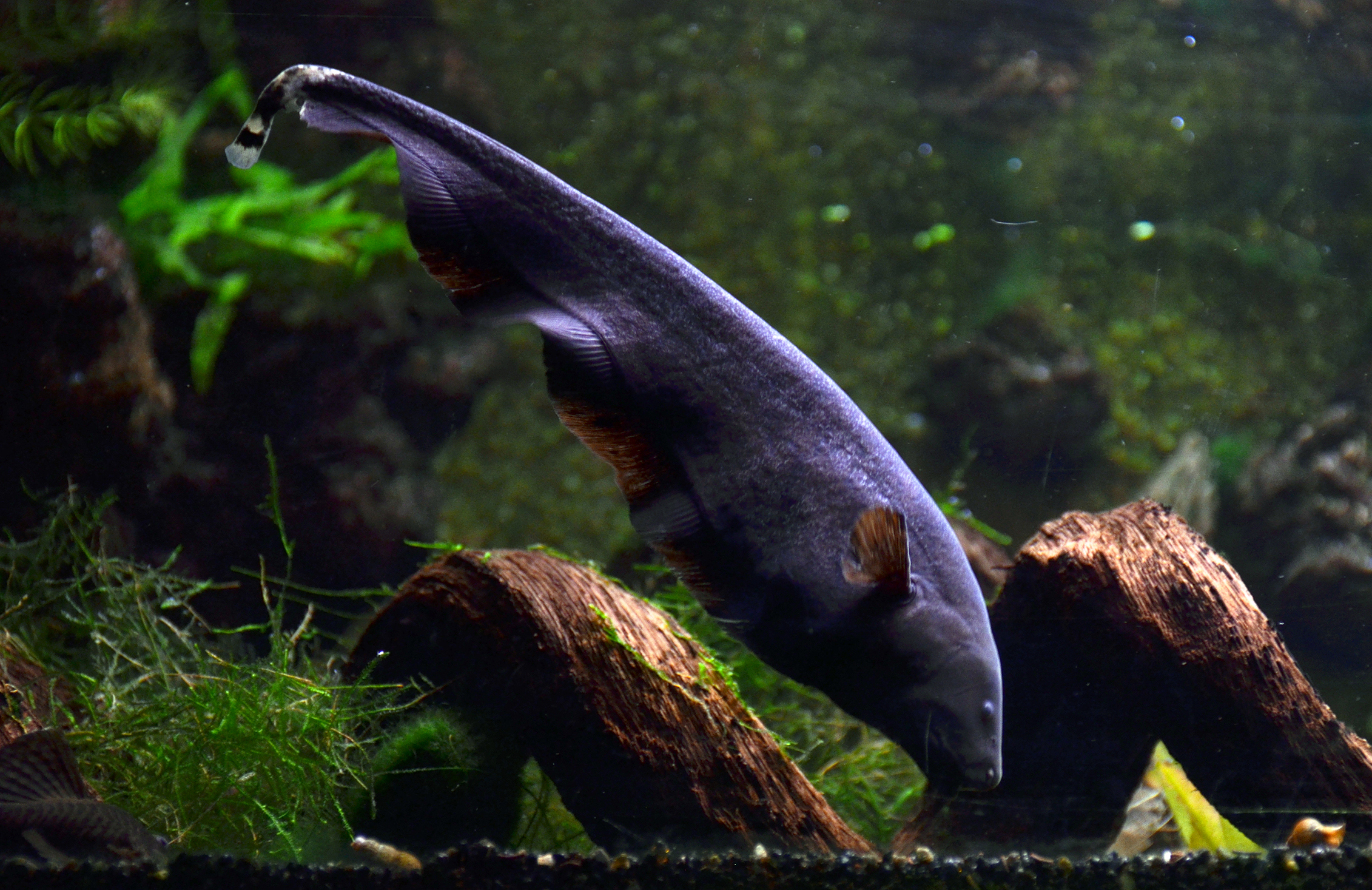 Black ghost ( Apteronotus albifrons ). Aquarium tropical du Palais de la Porte Dorée, in Paris.